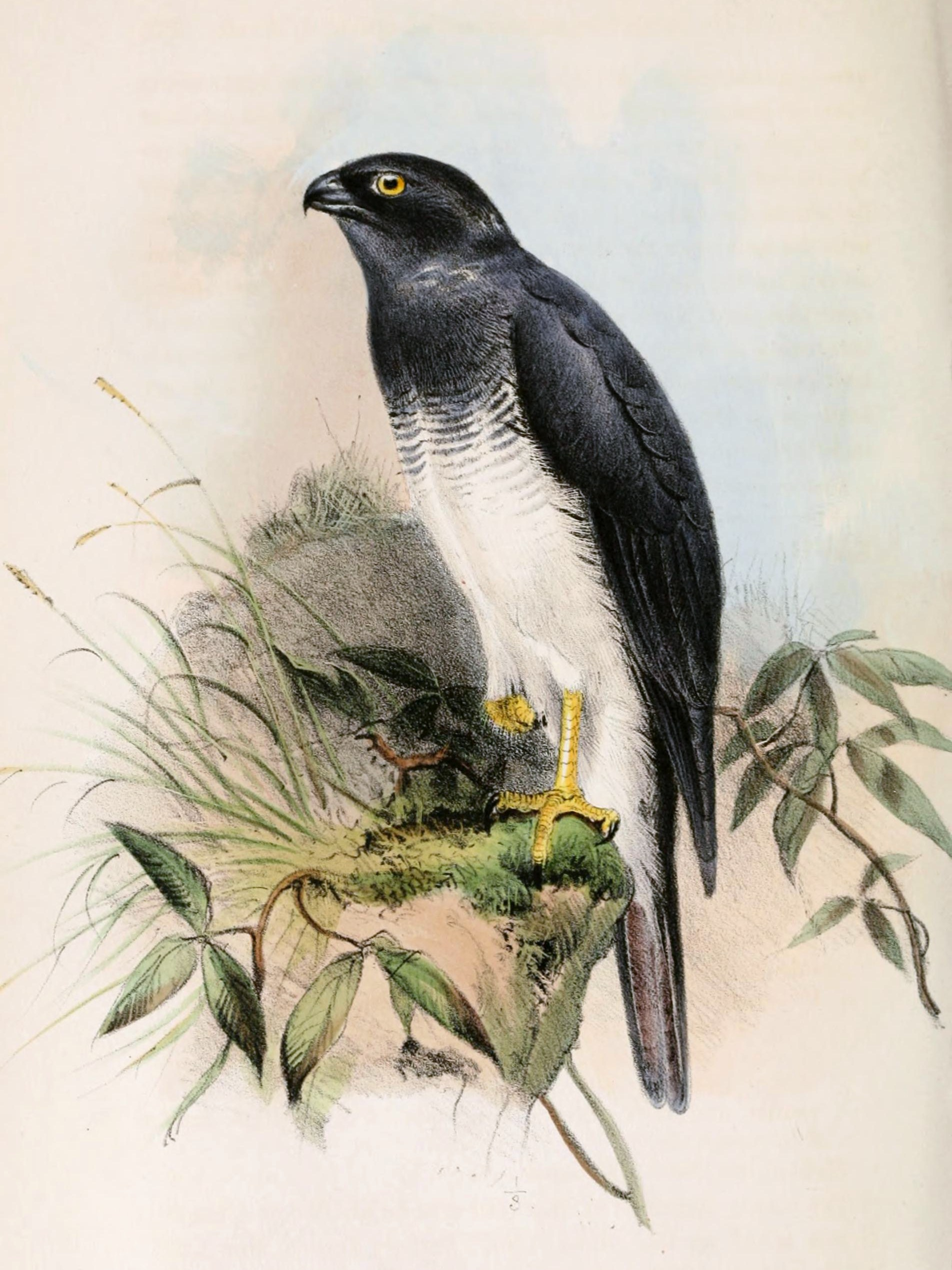 « Accipiter haplochrous » = Accipiter haplochrous (White-bellied Goshawk)